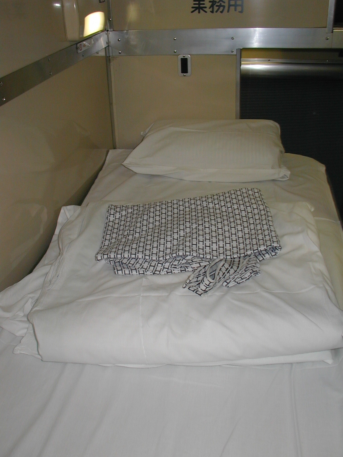 The inside of the Japanese Train GINGA's sleeping car.